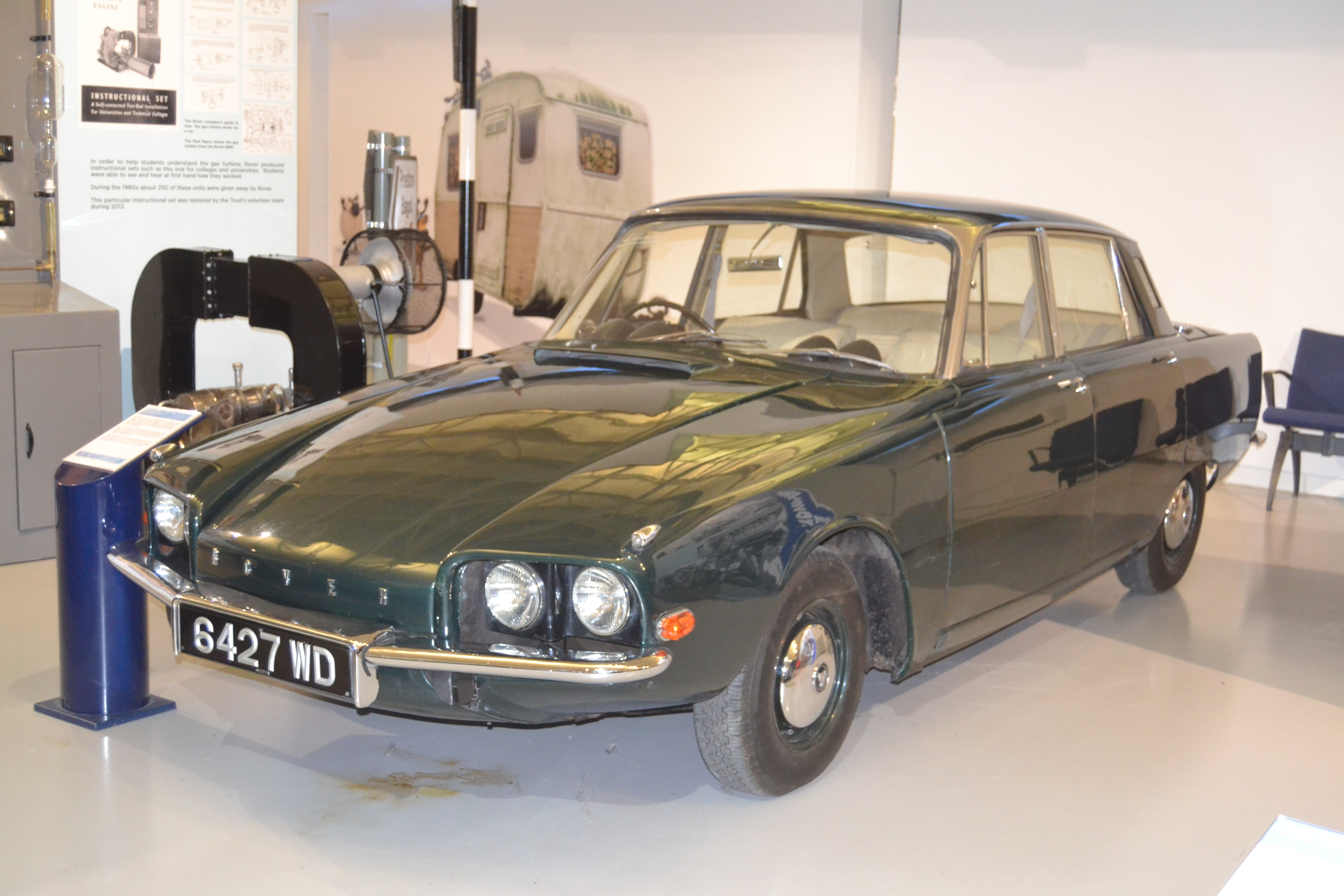 Rover Gas Turbine Prototype T4, Heritage Motor Centre, Gaydon, Warwickshire